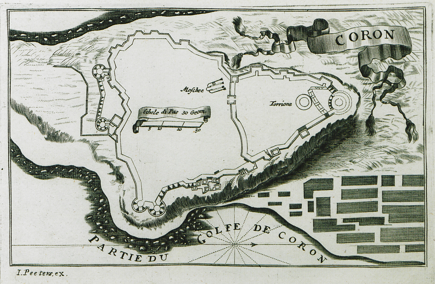 Jacob Peeters. Description des principales villes, havres et isles du golfe de Venise du coté oriental. Comme aussi des villes et forteresses de la Moree, et quelques places de la Grèce, Antwerp, Sur le marché des vieux Souliers, 1690.